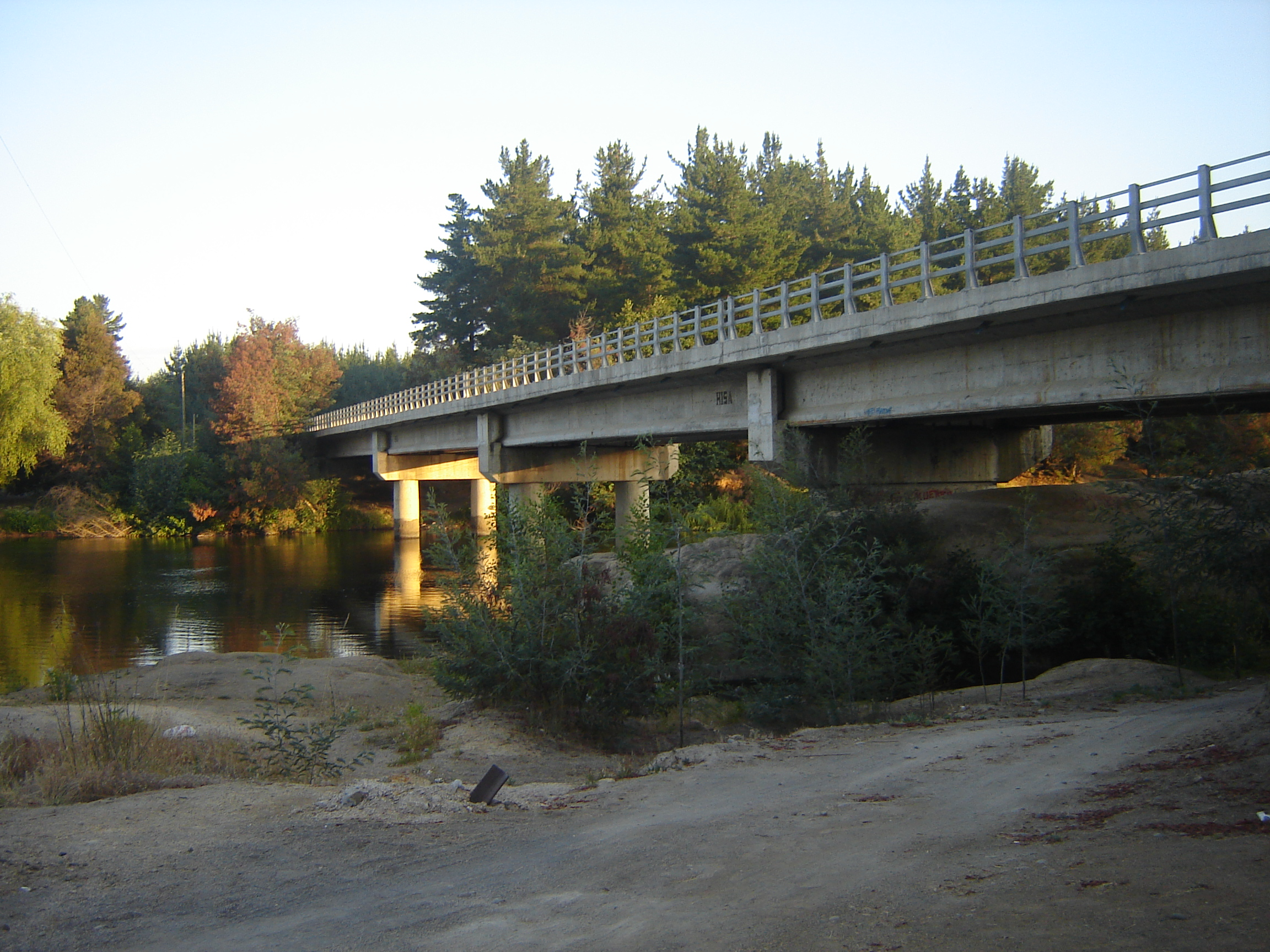 Puente Liucura Limite entre la comuna de Quillón y la Comuna de Pemuco